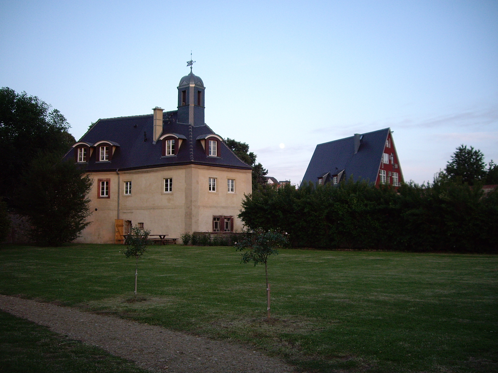 Castle Doeben